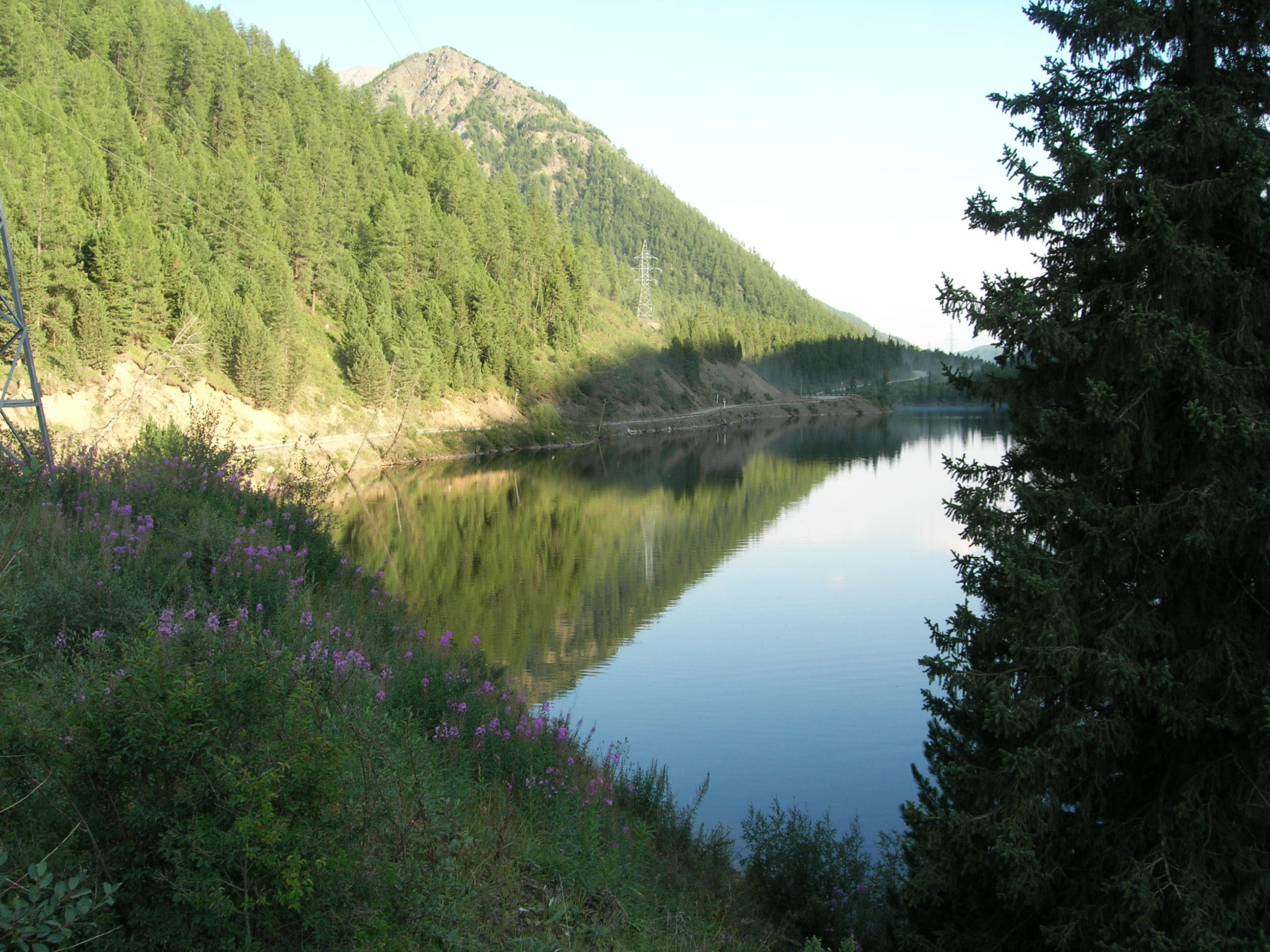 Lake Cheybek-Kohl, a view from the northern coast.